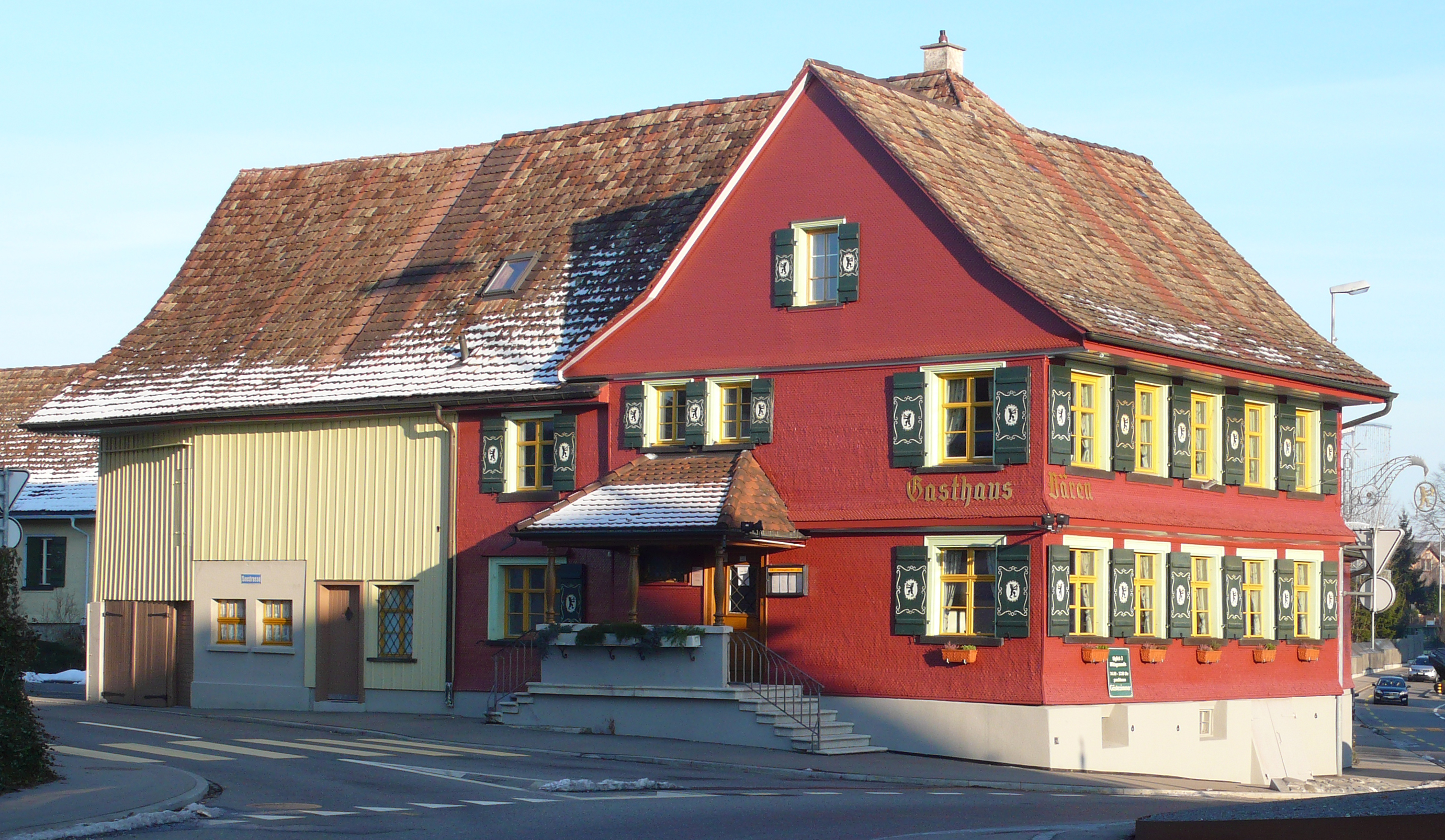 Restaurant "Bären" in Bottighofen, Switzerland